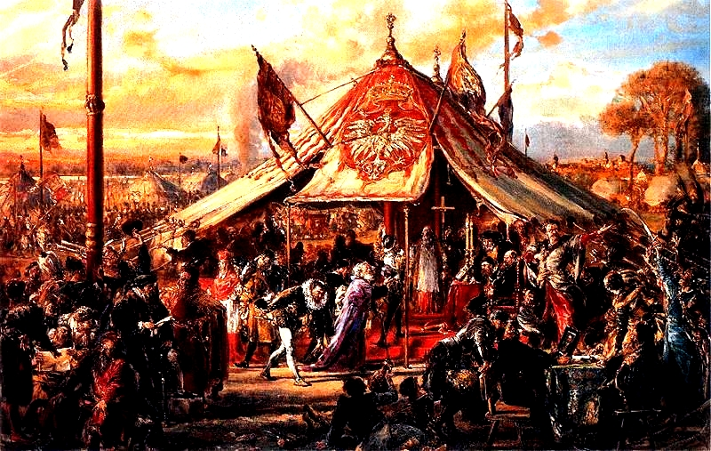 The Republic at Zenith of Power. Golden Liberty. Election in 1573. by Jan Matejko